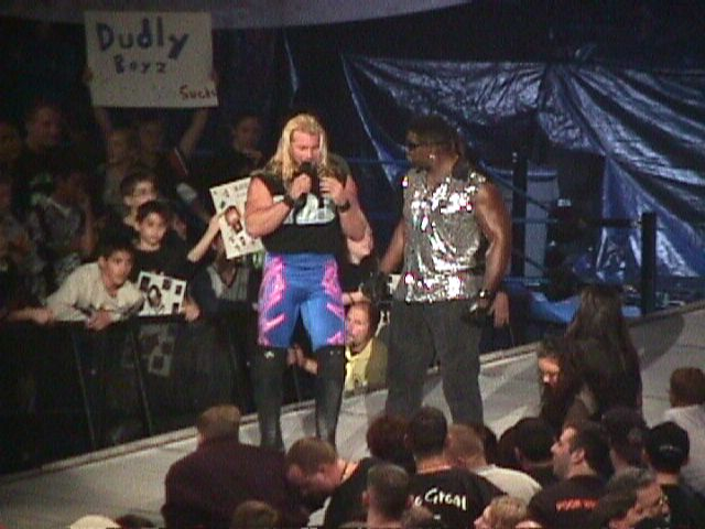 WWF (WWE) Smackdown photo do you know the wrestlers?